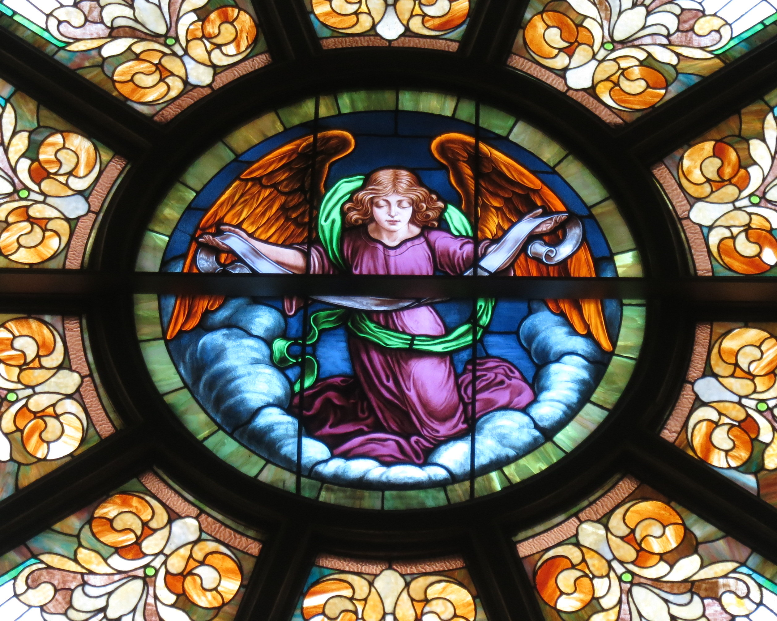 Saint Joseph Catholic Church (Wapakoneta, Ohio) - stained glass, organ loft, detail of angel